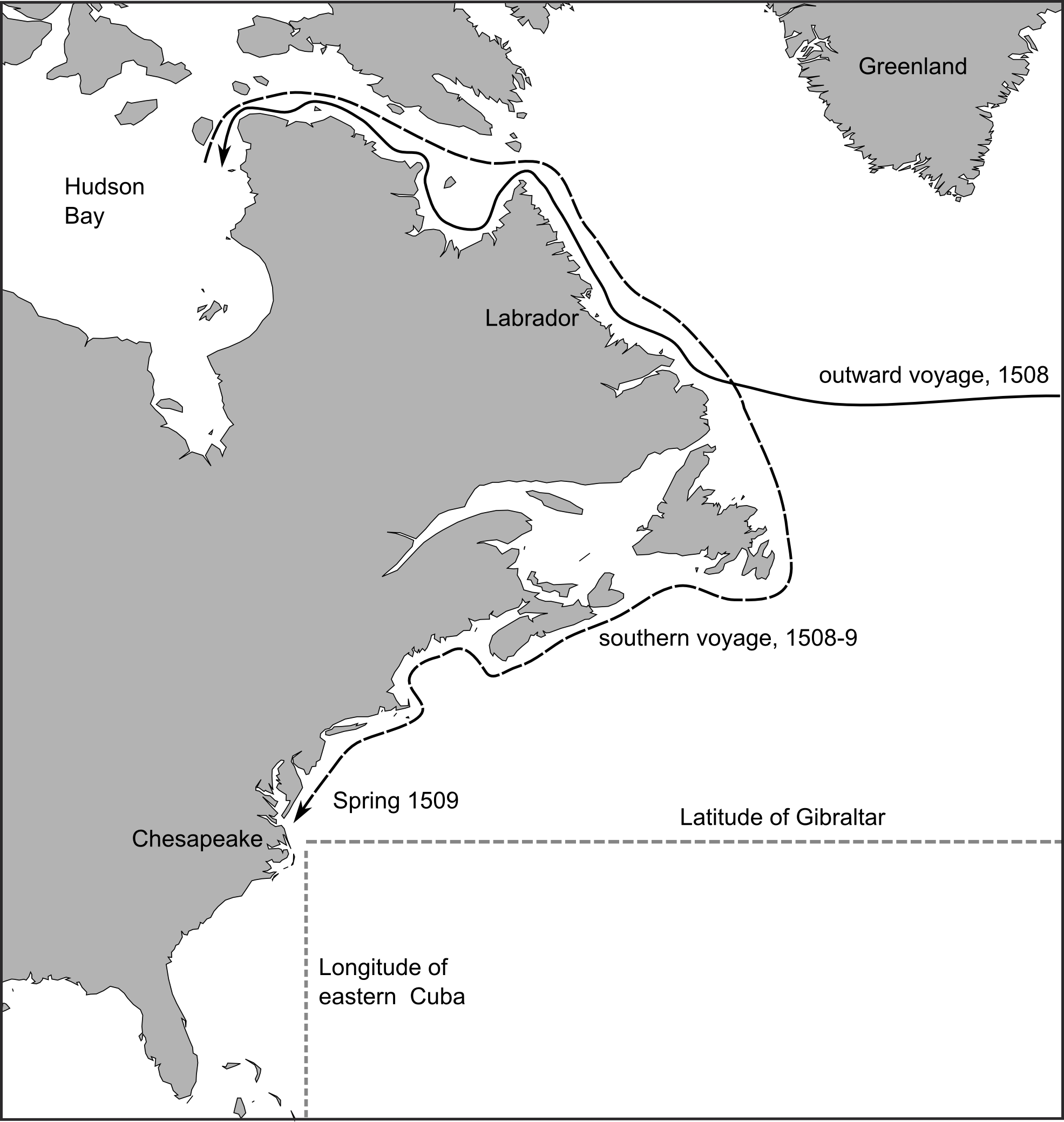 Presumed course of Sebastian Cabot's exploration voyage of 1508-9, based largely on Peter Martyr's 1516 account: Evan T. Jones and Margaret M. Condon, Cabot and Bristol's Age of Discovery: The Bristol Discovery Voyages 1480-1508 (University of Bristol. 2016), fig. 12, p. 69.